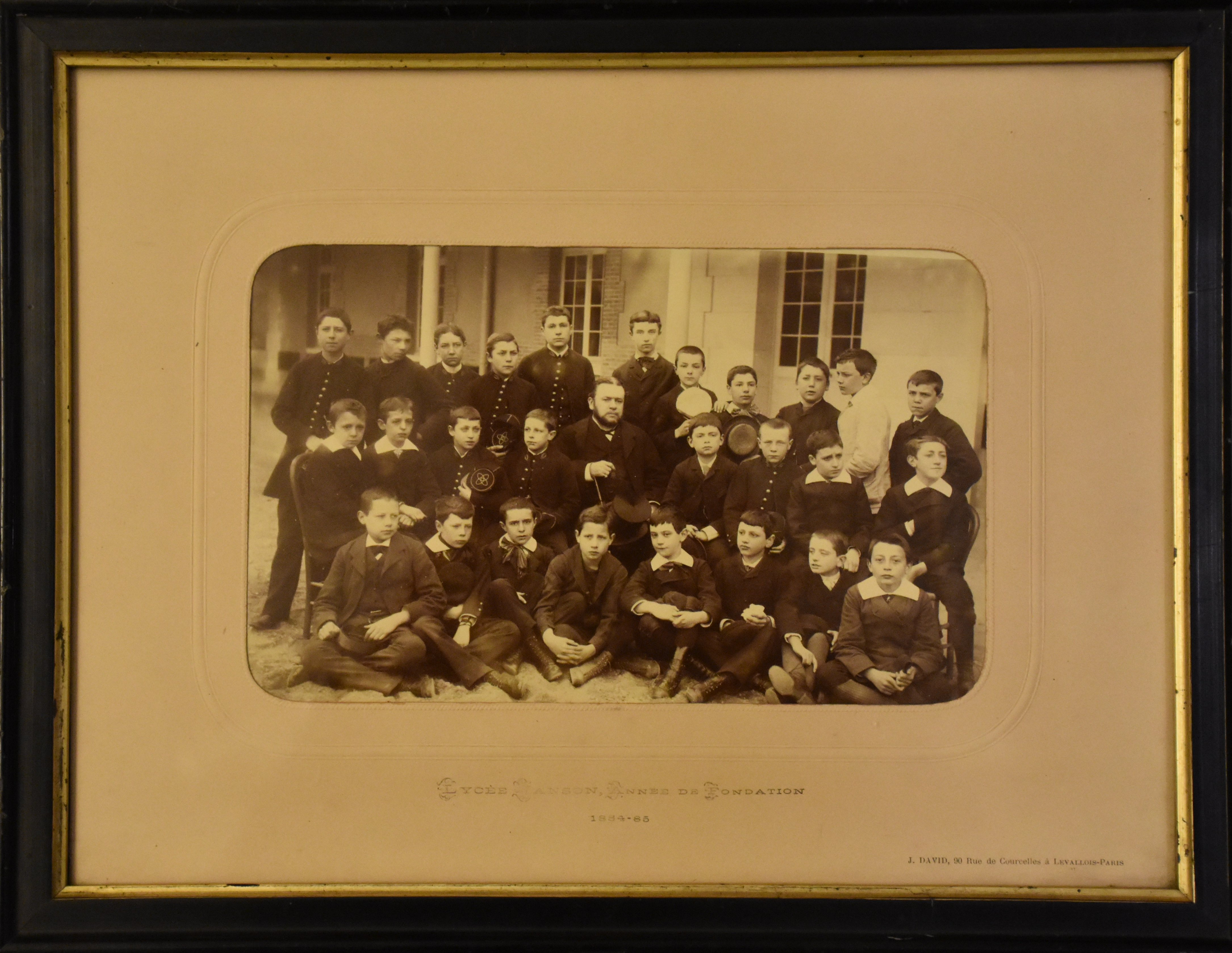 Lycée Janson de Sailly 1884